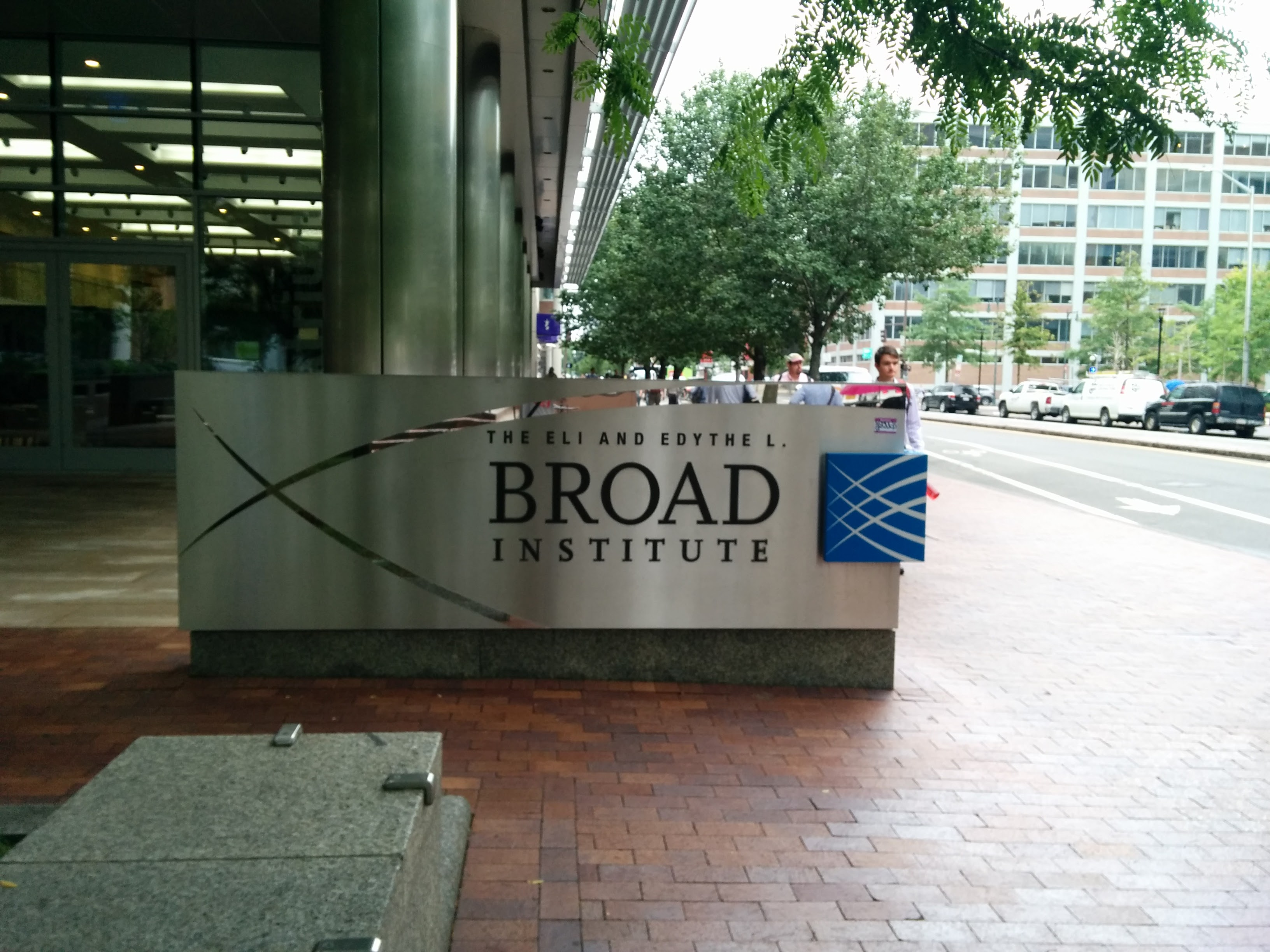 Broad Institute, 415 Main Street